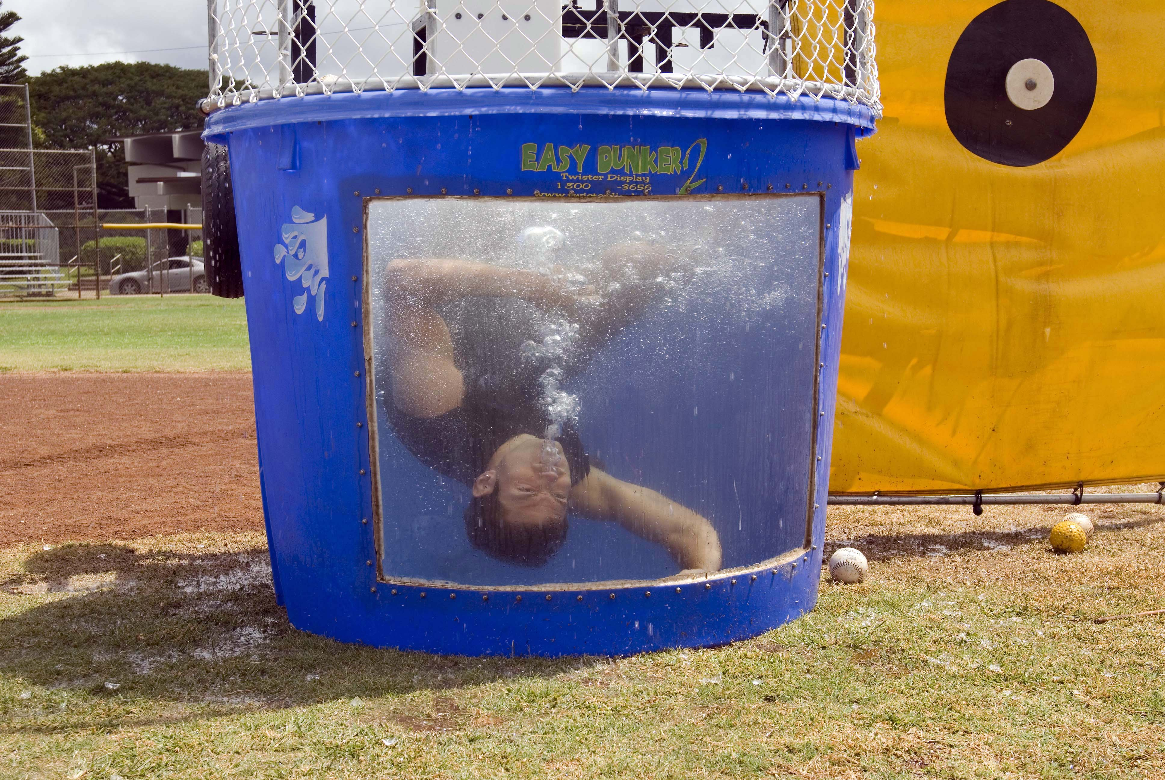 PEARL HARBOR, Hawaii (April 27, 2007) - Lt. (Dr.) Andrew Baldwin, of Lancaster, Pa., stationed at Mobile Diving and Salvage Unit (MDSU) 1, holds his breath after being dunked as Sailors and military family members of Pearl Harbor played a game called "Sink the Sailor." The event was designed to educate military members on alcohol awareness and health fitness. U.S. Navy photo by Mass Communication Specialist 2nd Class Ben A. Gonzales (RELEASED)